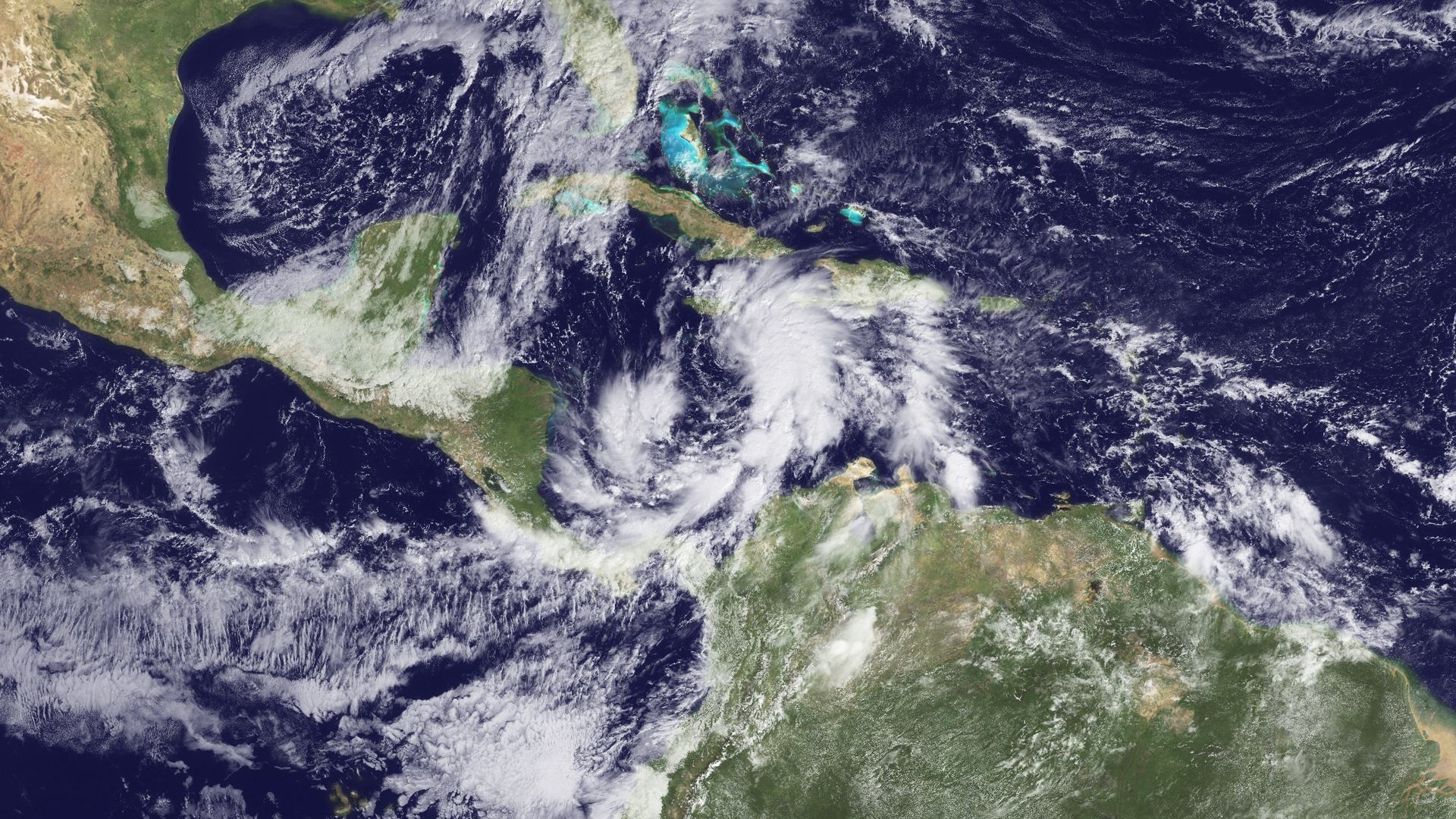 Tropical Storm Tomas is located southwest of Port Au Prince, Haiti, with winds near 45 MPH. This system is moving northward near 9 MPH and is expected to intensify over the next 24 hours. This GOES-East imagery was taken on November 4, at 1445Z.